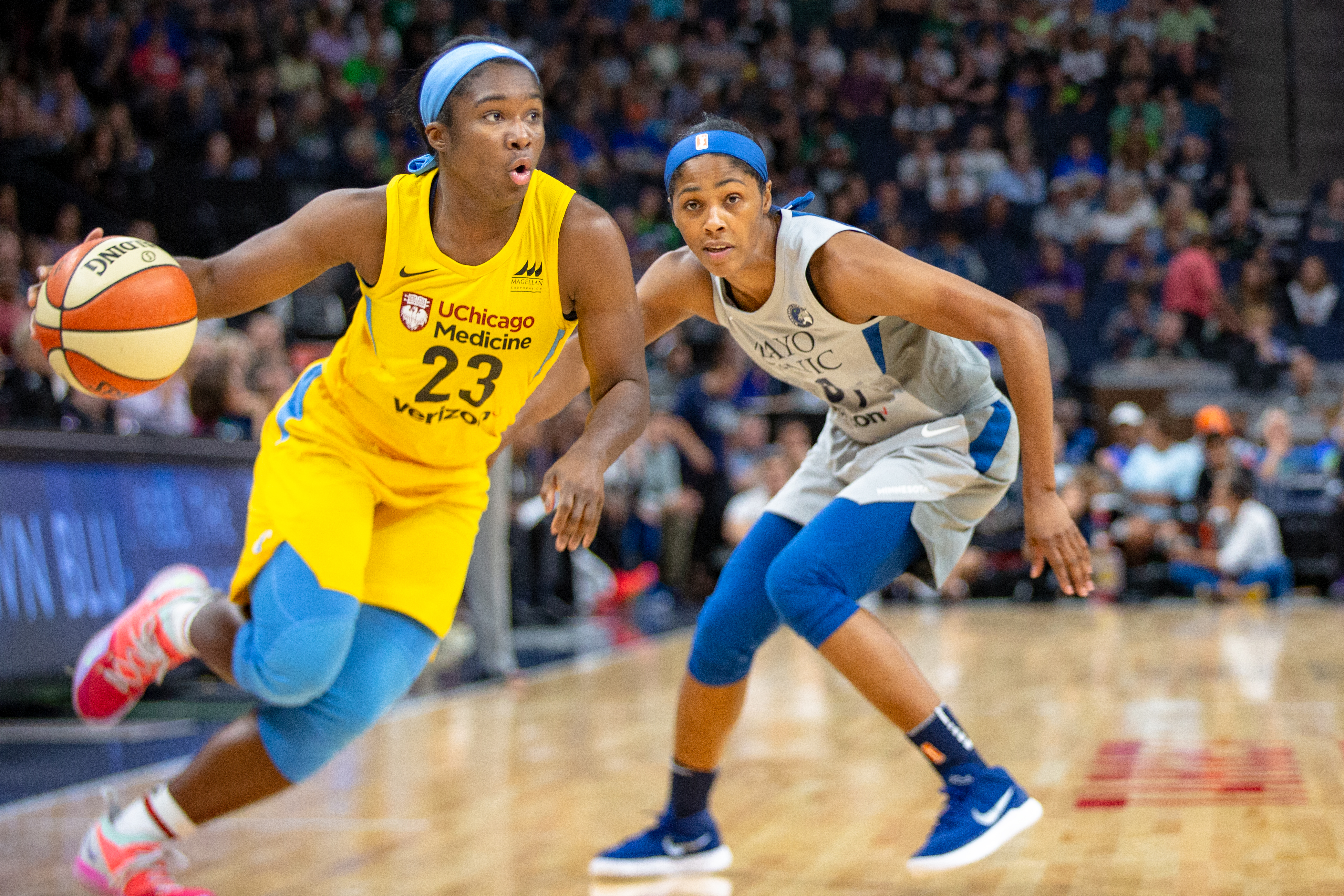 Linnae Harper (23) handles the ball around Sydney Colson (51). The game was on Tuesday August 14, 2018 at Target Center in Minneapolis Minnesota; the Sky beat the Lynx 91-88